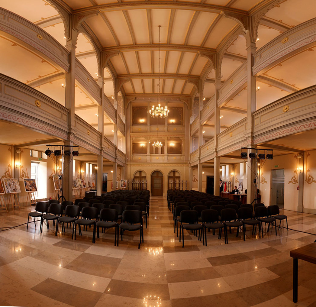 The main holl of the New Synagogue in Ostrow Wlkp.